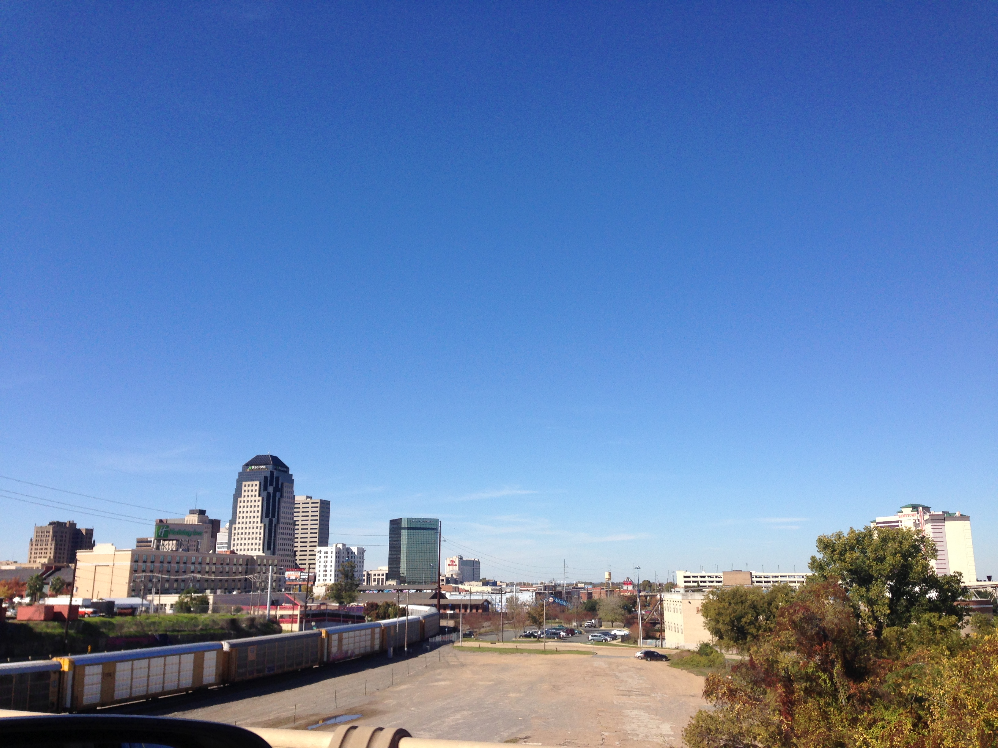 Shreveport, LA, USA